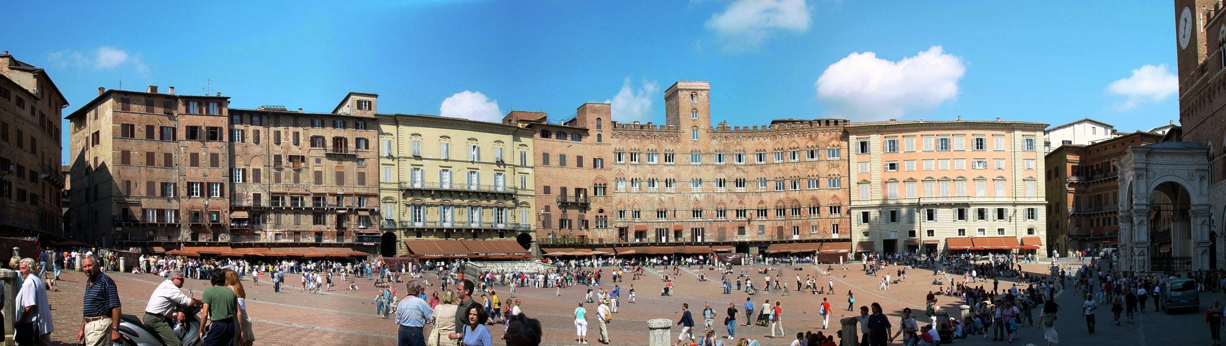 La Piazza del Campo a Siena, Italia.